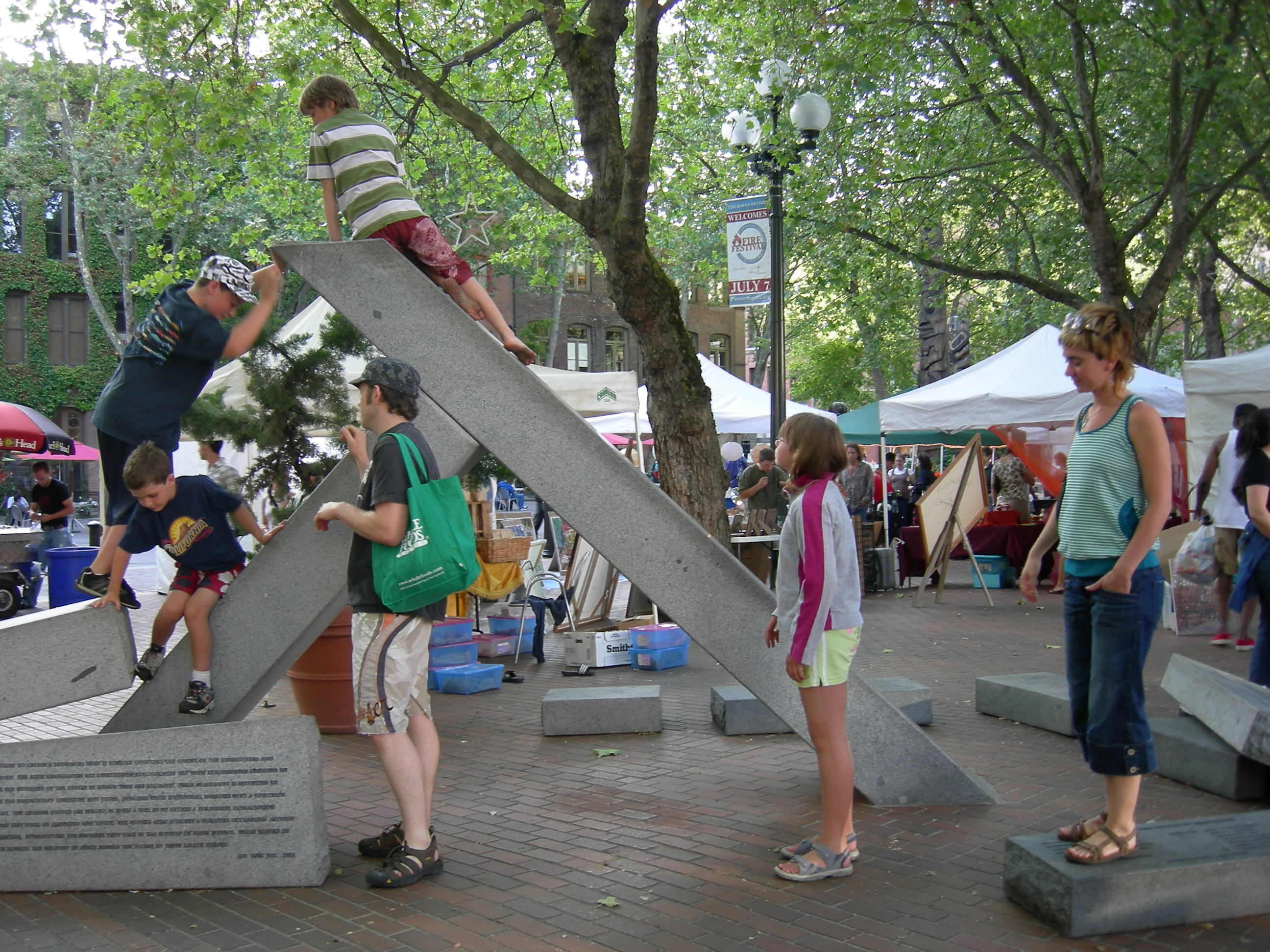 Children playing on the Firefighters' Memorial, Occidental Park, Pioneer Square, Seattle, Washington on the first Thursday in July 2007. First Thursday is the traditional evening for Pioneer Square gallery openings. Many artists and craftspeople set up for the evening in the park (which is in the heart of the gallery district); there is also often music there.